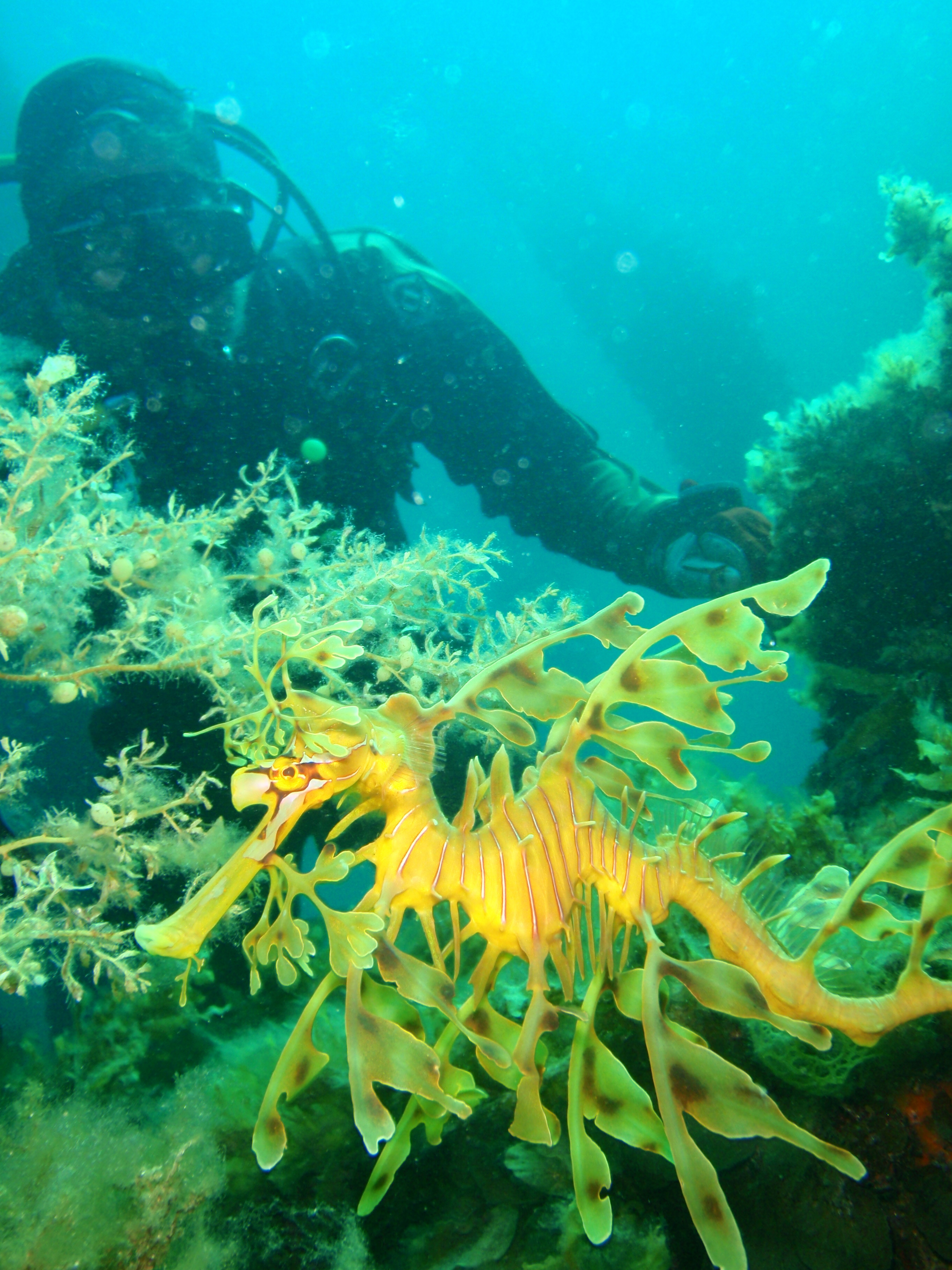 Leafy sea dragon Phycodurus eques at Rapid Bay Jetty, Gulf St Vincent, South Australia